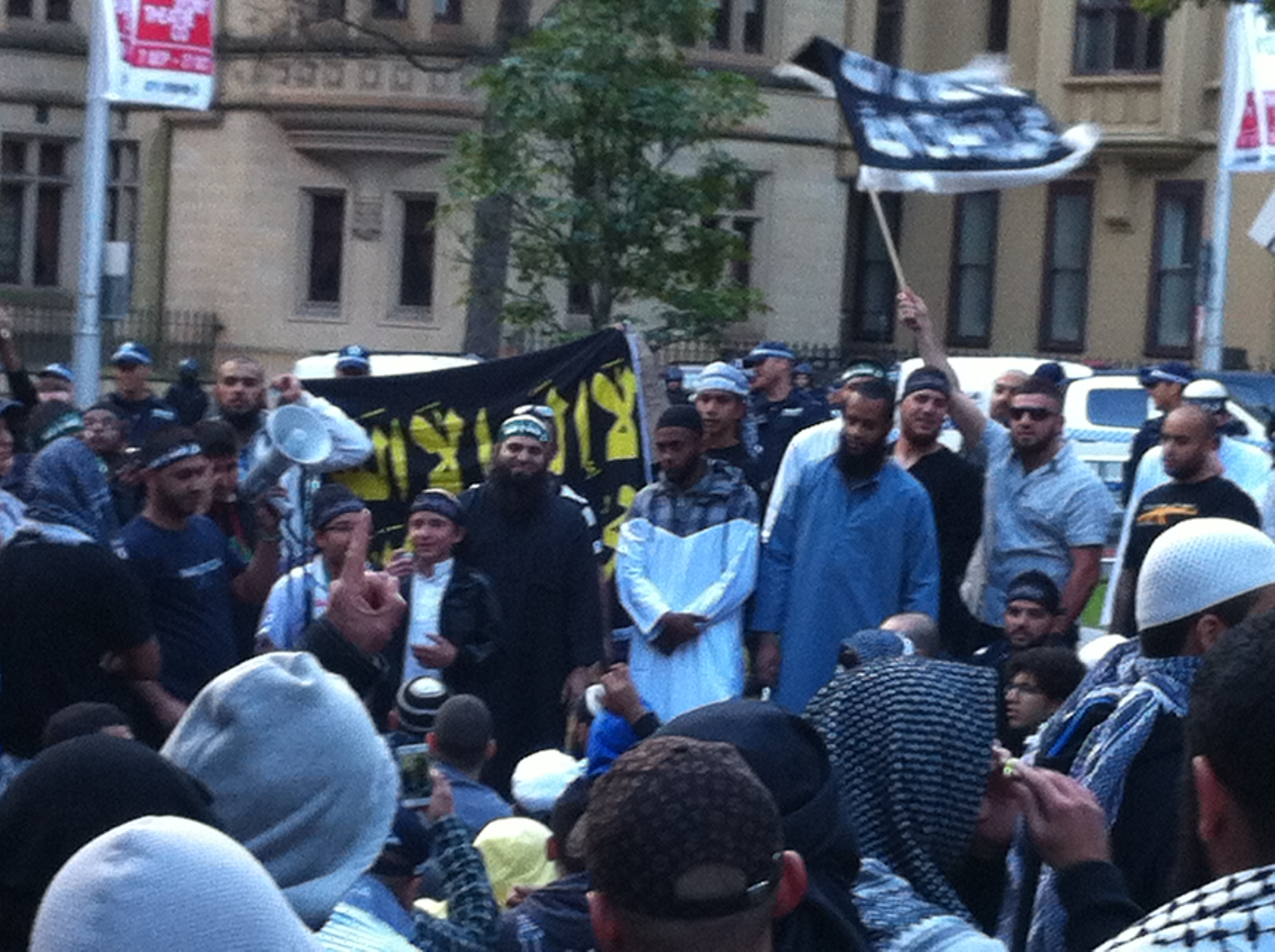 St James Road Court, of the Supreme Court of NSW, visible in background.